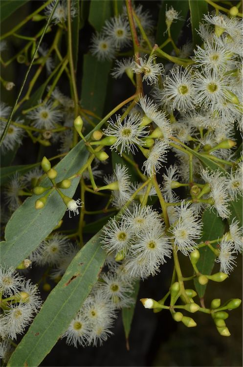 Foliage, flowers and buds of Eucalyptus brownii taken near the Hervey Range Development Road north-west of Townsville